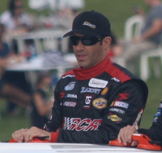 NASCAR driver Tim George, Jr. during driver introductions at the 2010 Bucyros 200 the first Nationwide Series race at Road America.